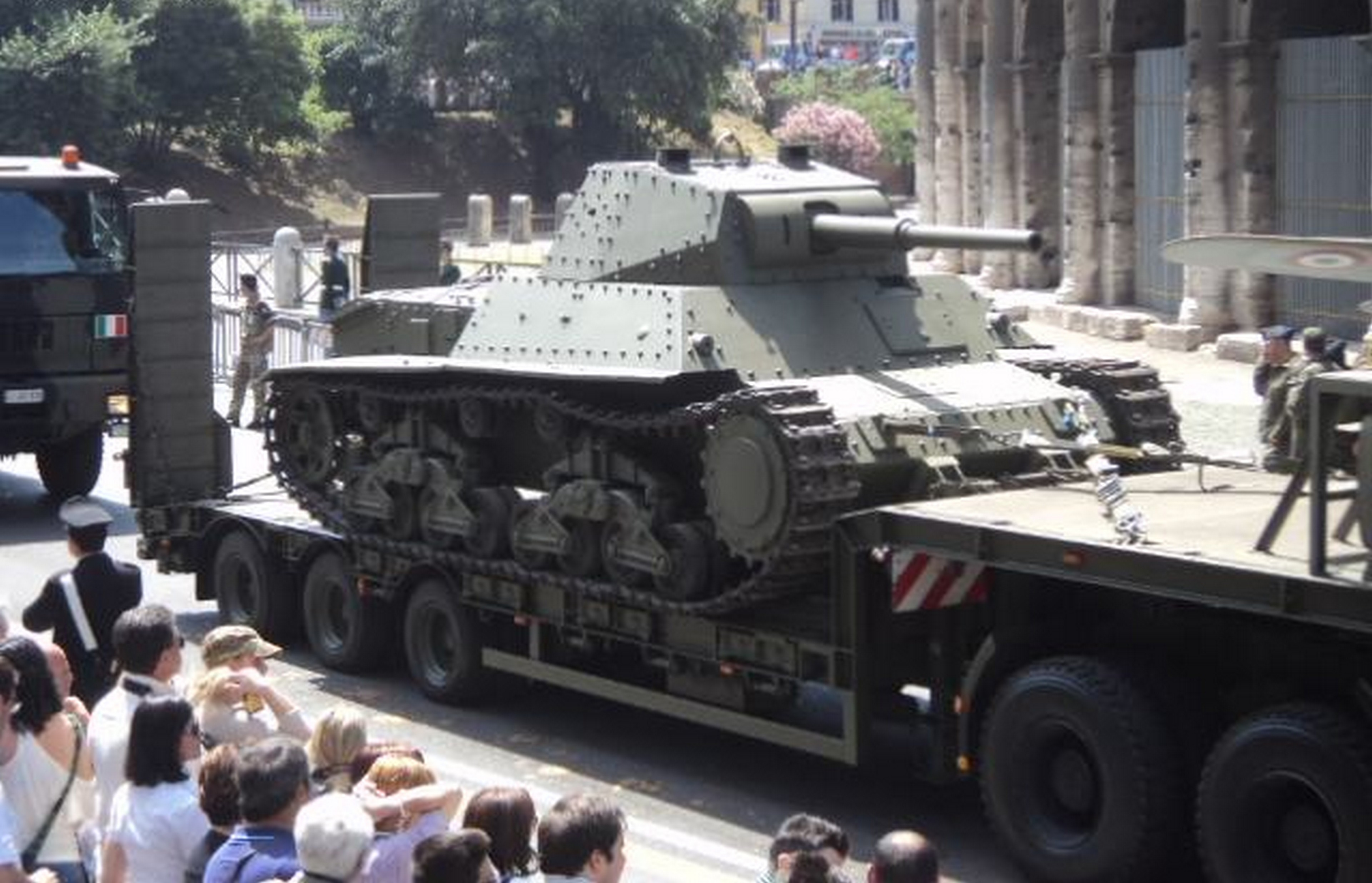 Army parade of Italy 2011